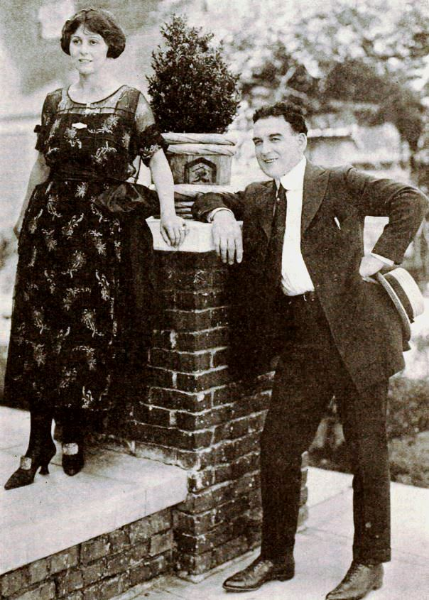 Edith Johnson and William Duncan, taken in front of her house, on page 79 of the August 14, 1920 Exhibitors Herald. They had just begun working on their next film serial Fighting Fate (1921), and would later marry in 1921.